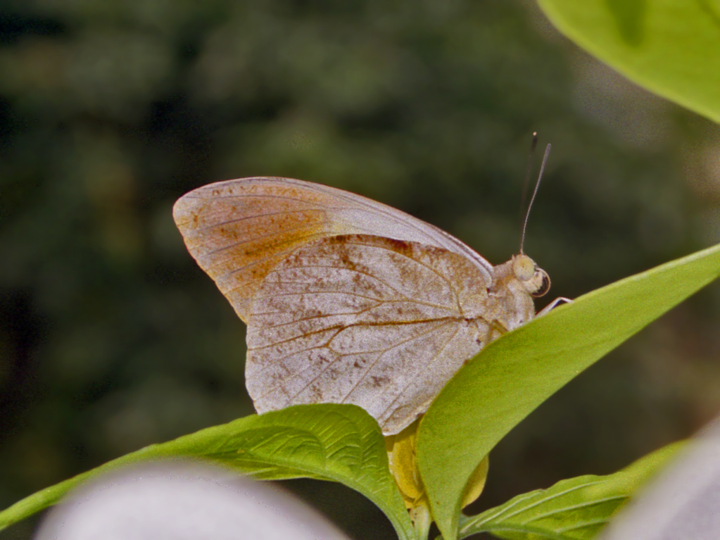 Hebomoia glaucippe - male